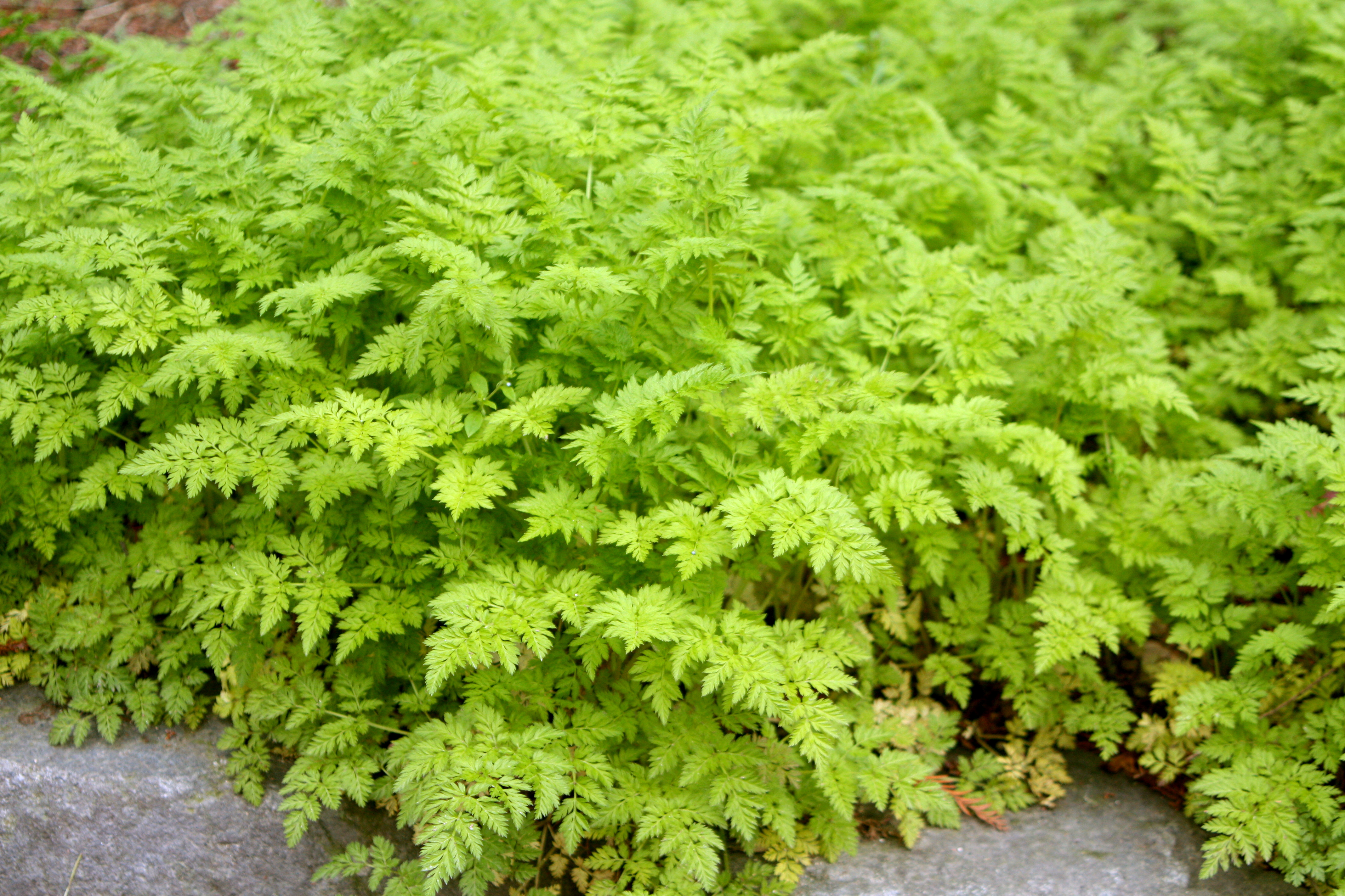 Anthriscus sylvestris in Seoul, Korea